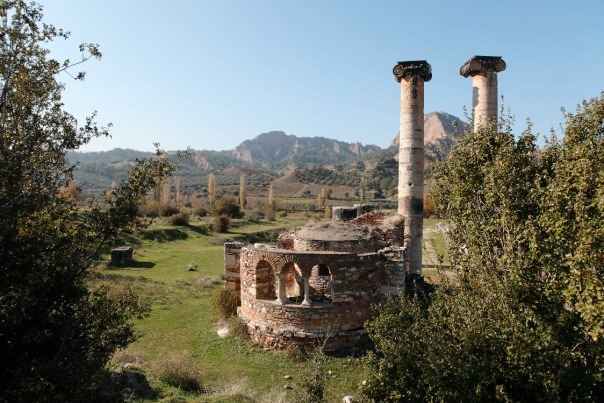 Turkey Artemis Temple in Sardes